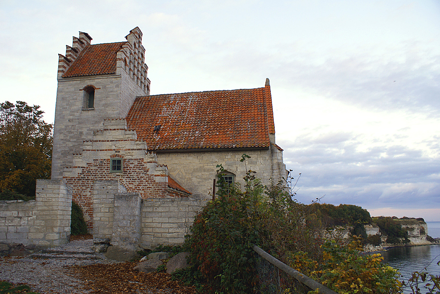 Hoejerup old Church, Stevns Kommune, Denmark